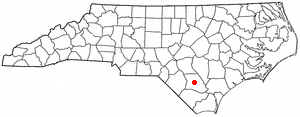 Category:North Carolina Dot Maps